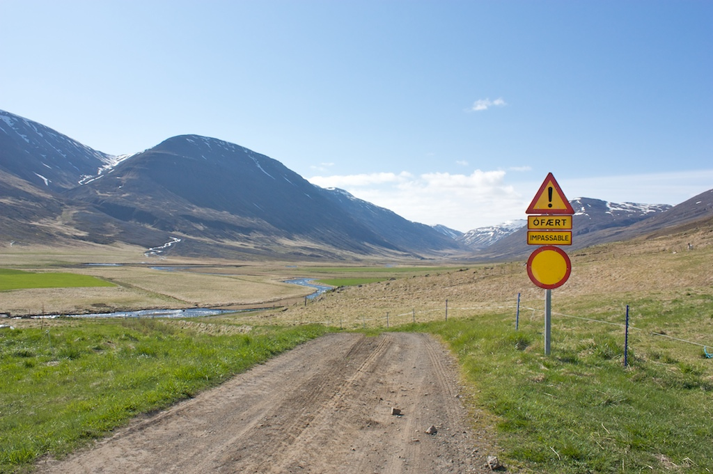 The road to Mordor.